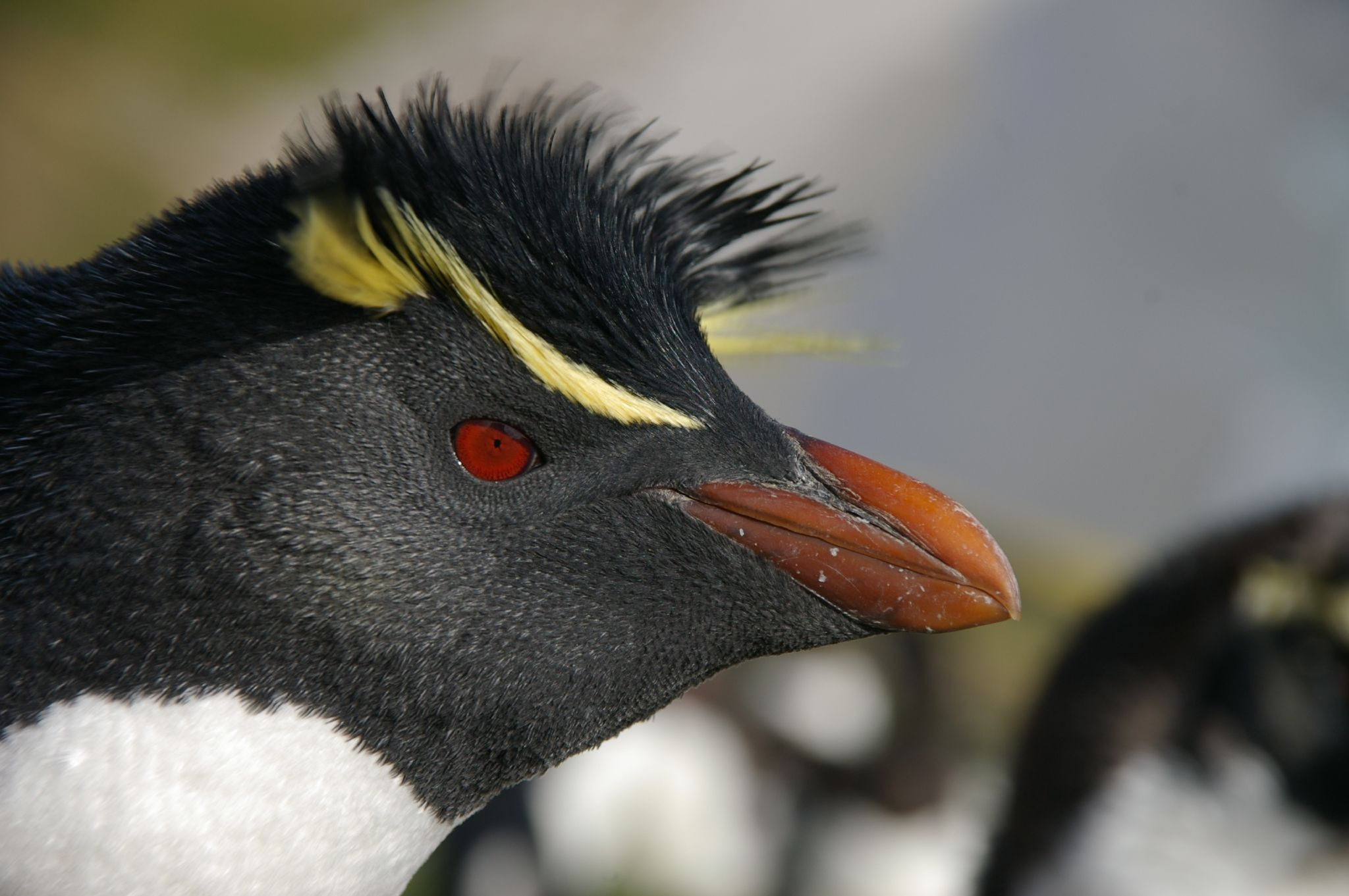 (Southern) Rockhopper Penguin (Eudyptes chrysocome), Saunders Island, Falkland Islands